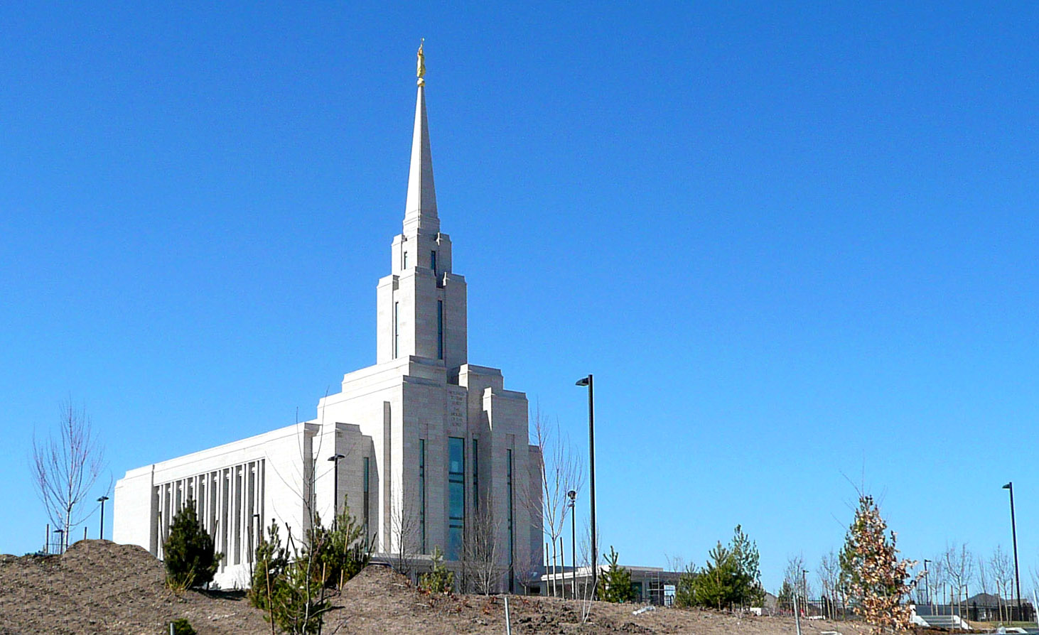 The Oquirrh Mountain Utah Temple of The Church of Jesus Christ of Latter-day Saints near completion, before open house and dedication.